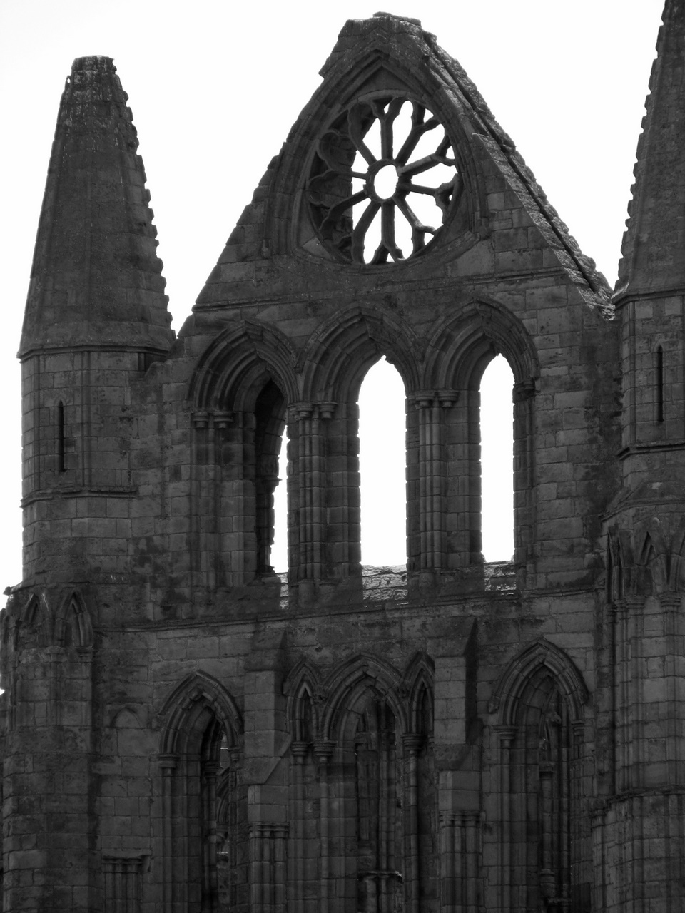 Whitby Abbey (B&W)